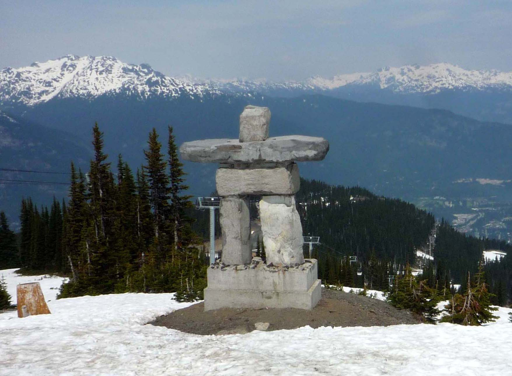 Statue of Ilanaaq the Inunnguaq, mascot of the 2010 Winter Olympics, located at the top of the Whistler Village Gondola at the Whistler Blackcomb resort, Whistler, British Columbia, Canada.